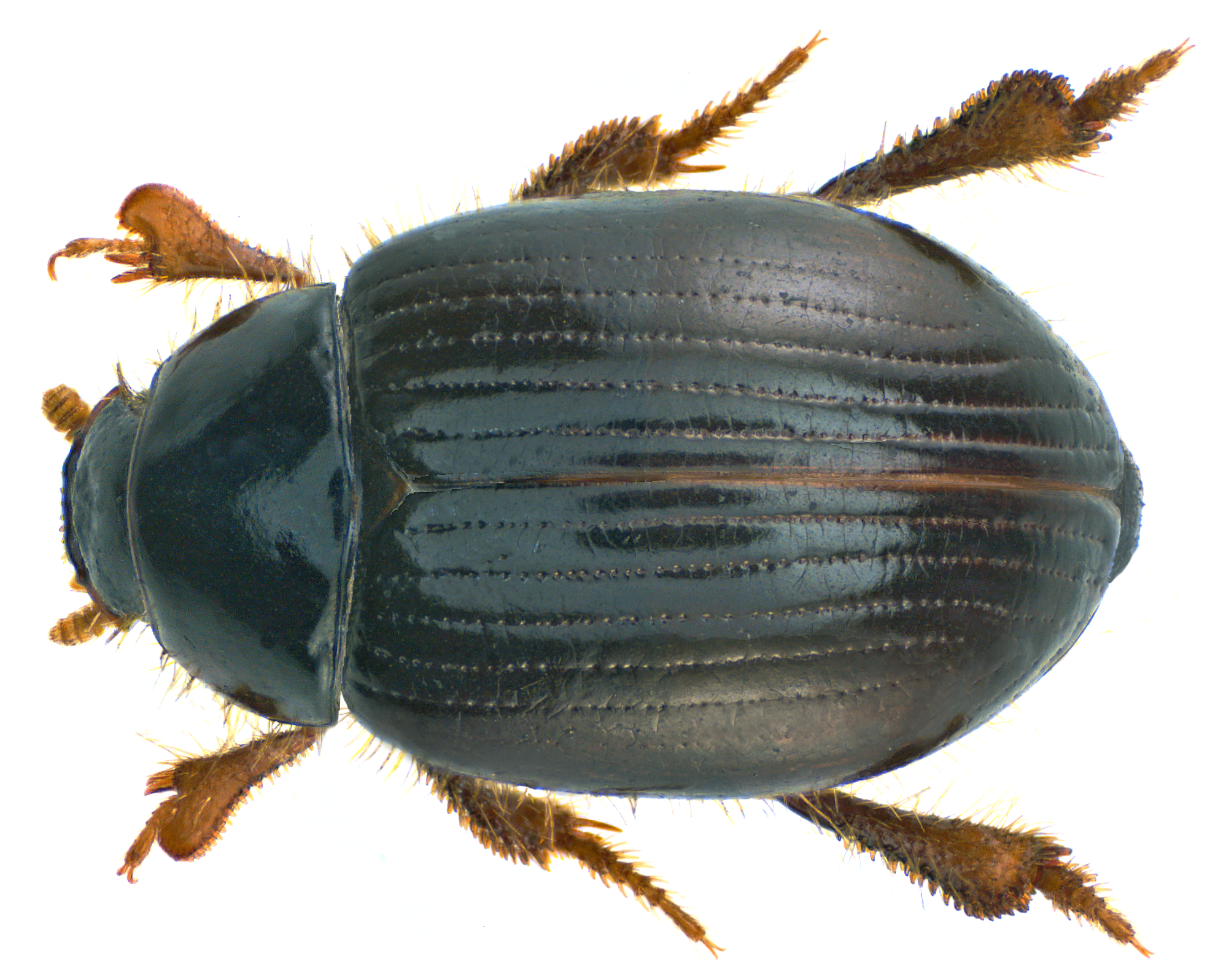 Family: Tenebrionidae Size: 4,2 mm Location: Italy, Sardinia, Chia leg. J.Scheuern, 17.IV.1992. det. Schawaller, 1993 Photo: U.Schmidt, 2013